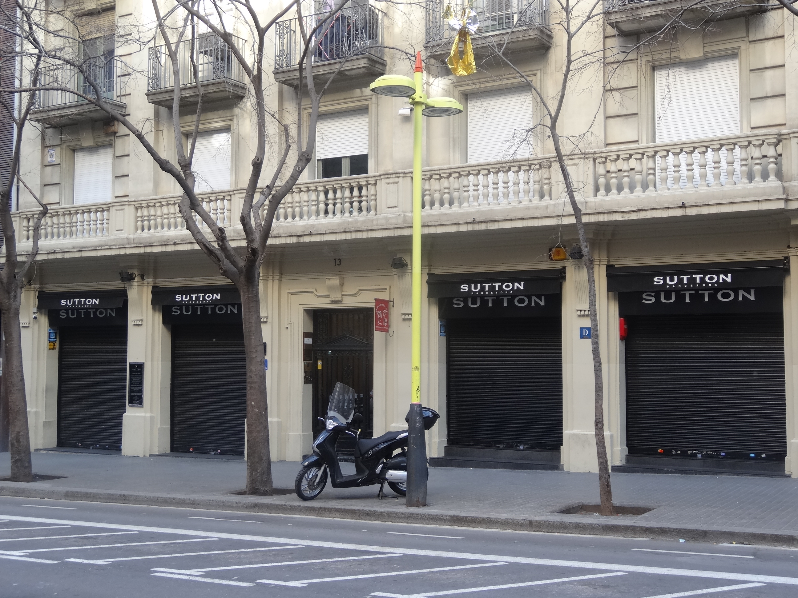 Sutton Club, Carrer Tuset 13, Barcelona